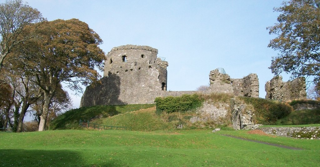 The upper ward of Dundrum Castle